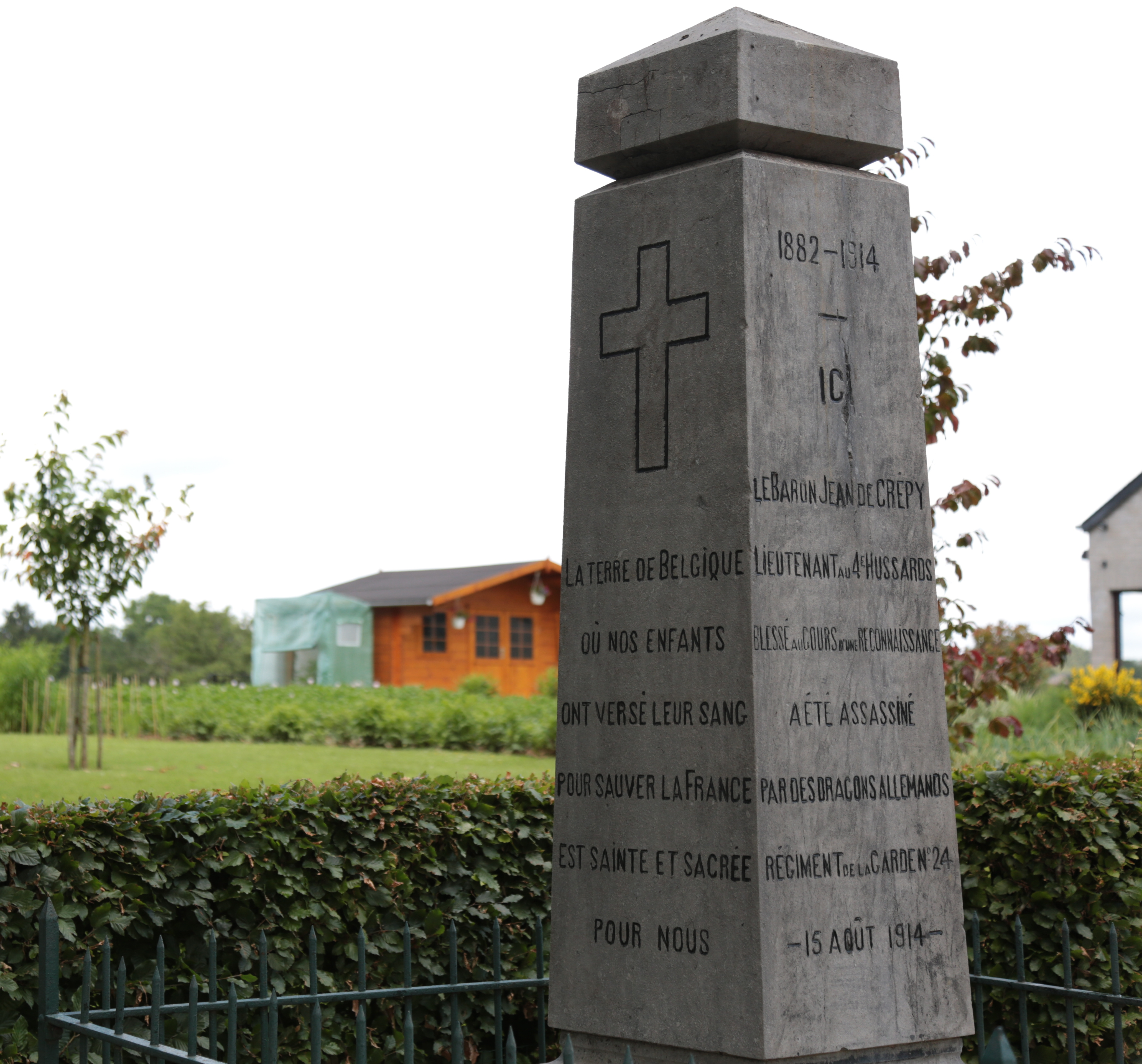 Monument to Lieutenant Crépy